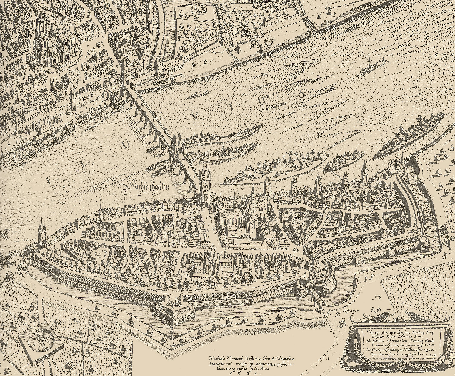 Details of the map of the city of Frankfurt am Main, Germany: Sachsenhausen